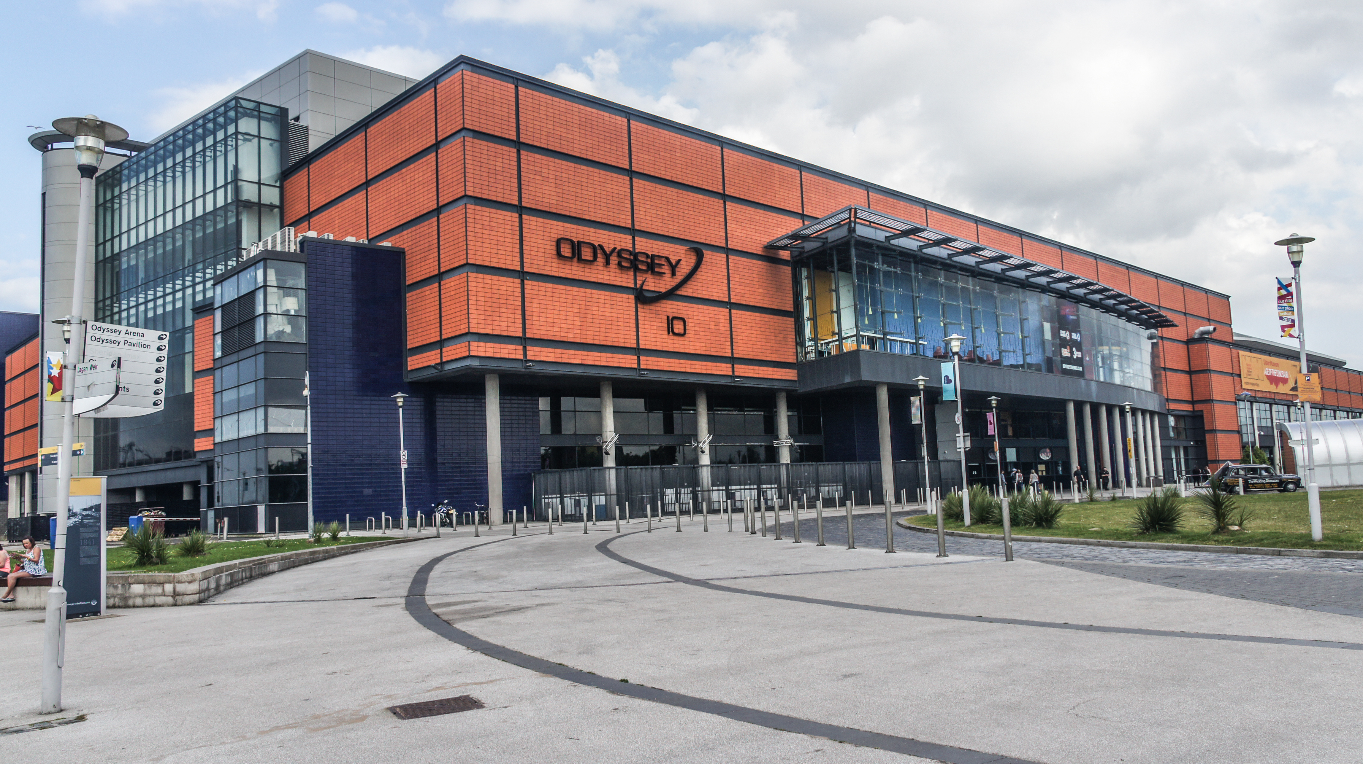 Odyssey, Belfast's Landmark Millennium Project, has firmly established itself as Northern Ireland's premiere entertainment and leisure facility. Overlooking the Harland and Wolff shipyard, it comprises the southern border of the £1 billion Titanic Quarter development. Odyssey Arena With flexibility to seat up to 10,000, the Arena is Ireland's biggest indoor venue. It attracts world class acts from around the world and hosts an amazing range of sporting events including boxing, basketball, tennis and motorcycle trials. Home of The Belfast Giants The Odyssey Arena is also the home of the Belfast Giants, Ireland's first professional hockey team. Watch the Giants battle it out on the ice and experience a fantastic night of entertainment for all the family. On Saturday 2nd October 2010, a Belfast Giants Selects Team made up of the best of the current Giants squad and all-stars from the rest of the UK Elite League will take on the legendary Boston Bruins of the National Hockey League, in a once in a lifetime exhibition game at Odyssey Arena. Find out more here. Odyssey Pavilion Home to Storm Cinema, Imax Cinema, Odyssey Bowl, W5 and a range of restaurants, bars and nightclubs, the Pavilion is a one-stop shop for entertainment for all ages. Click here to see all that the pavilion has to offer. Who What Where When Why - W5 W5 is a world-class interactive discovery centre with over 160 amazing interactive exhibits including a lie detector, laser harp and a giant racetrack. W5 also offers an ever-changing programme of special events, shows and temporary exhibitions.